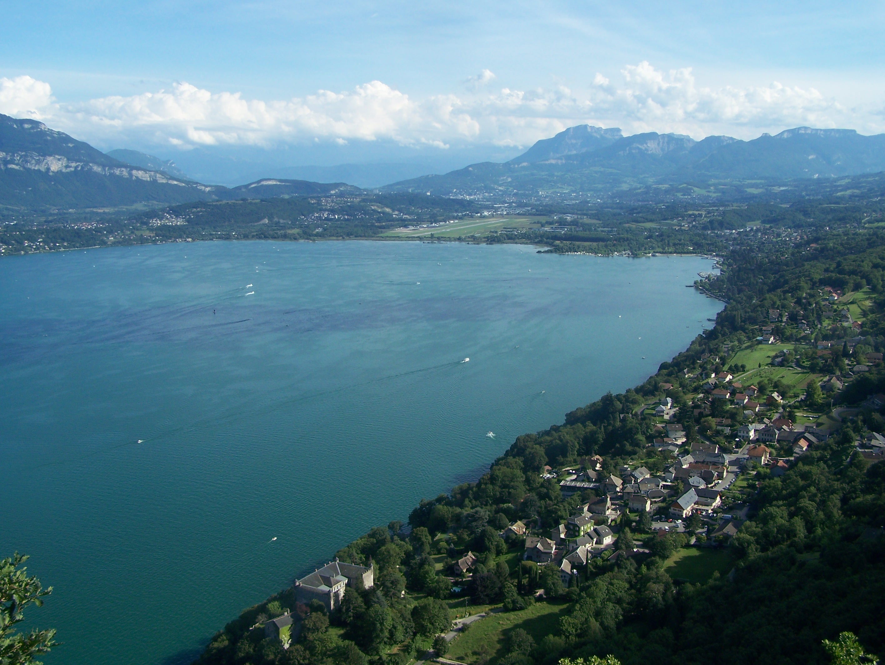 The Bourget Lake seen from a small lookout on the road to the Col du Chat (Cat's pass) on the Chaîne de l'Épine) mountain Savoie, France.